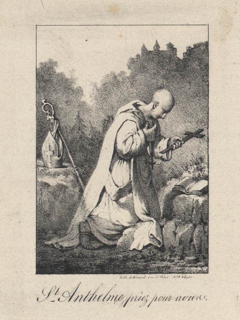 "St Anthelme priez pour nous" ("St. Anthelm prays for us")